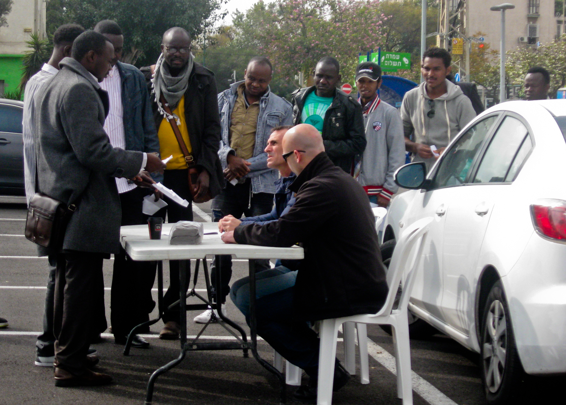 African asylum seekers on the way to jail.